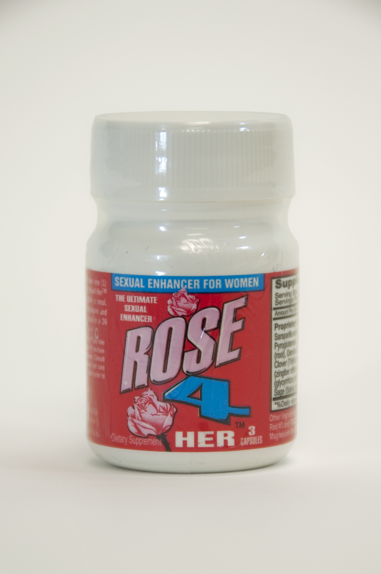 July 1, 2008 - The FDA is advising consumers not to purchase or use "Rose 4 Her," a product promoted and sold for sexual enhancement. The product was found to contain undeclared thiomethisosildenafil. For more information, go to And read these FDA Consumer Updates: Beware of Fraudulent ‘Dietary Supplements’ "All Natural" Alternatives for Erectile Dysfunction: A Risky Proposition